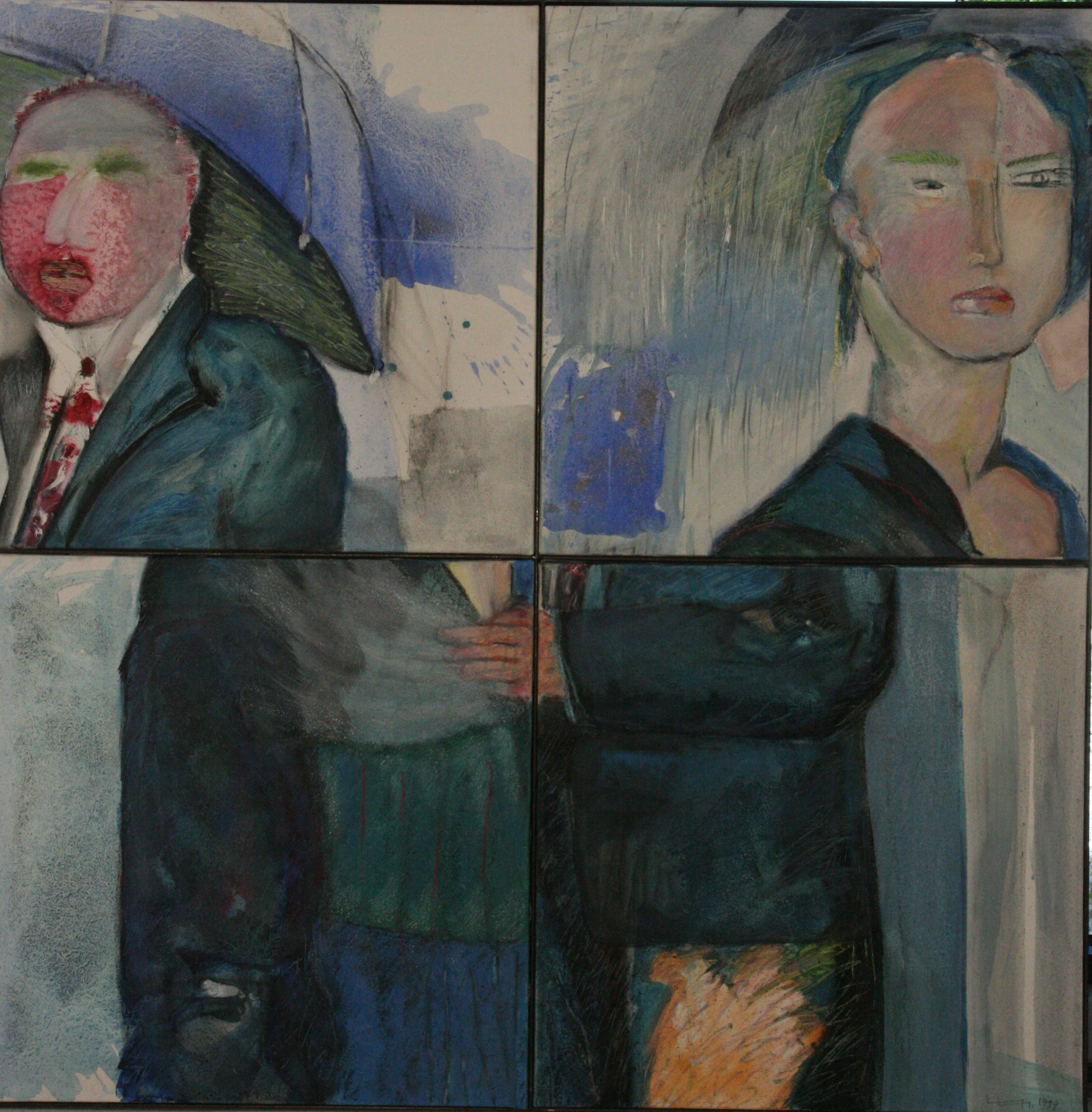 The Couple, No Way to Return :ModulArt painting by Leda Luss Luyken